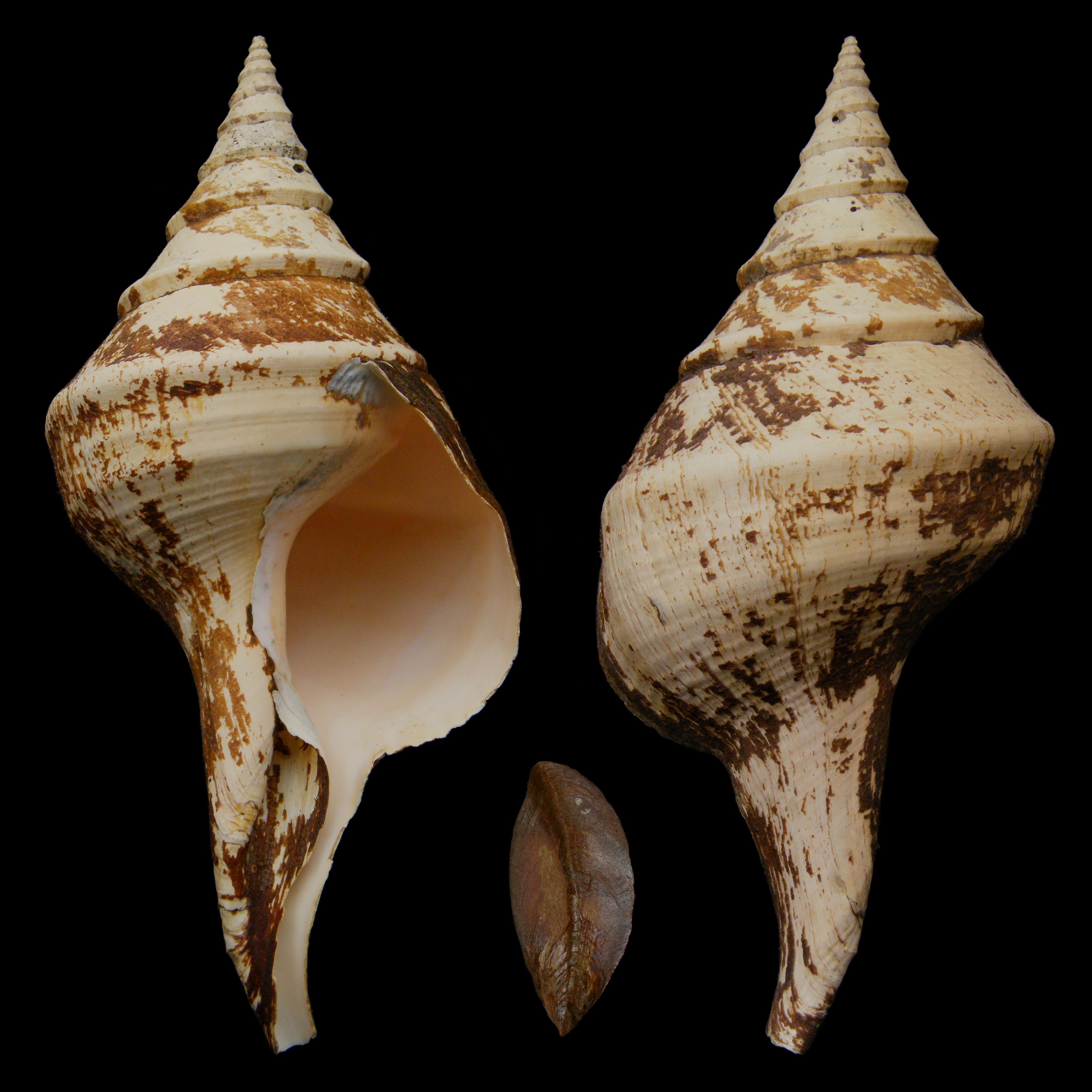 Syrinx aruanus Linnaeus, 1758, Australia. size 61 cm. With operculum and periostracum. acquired 1986.